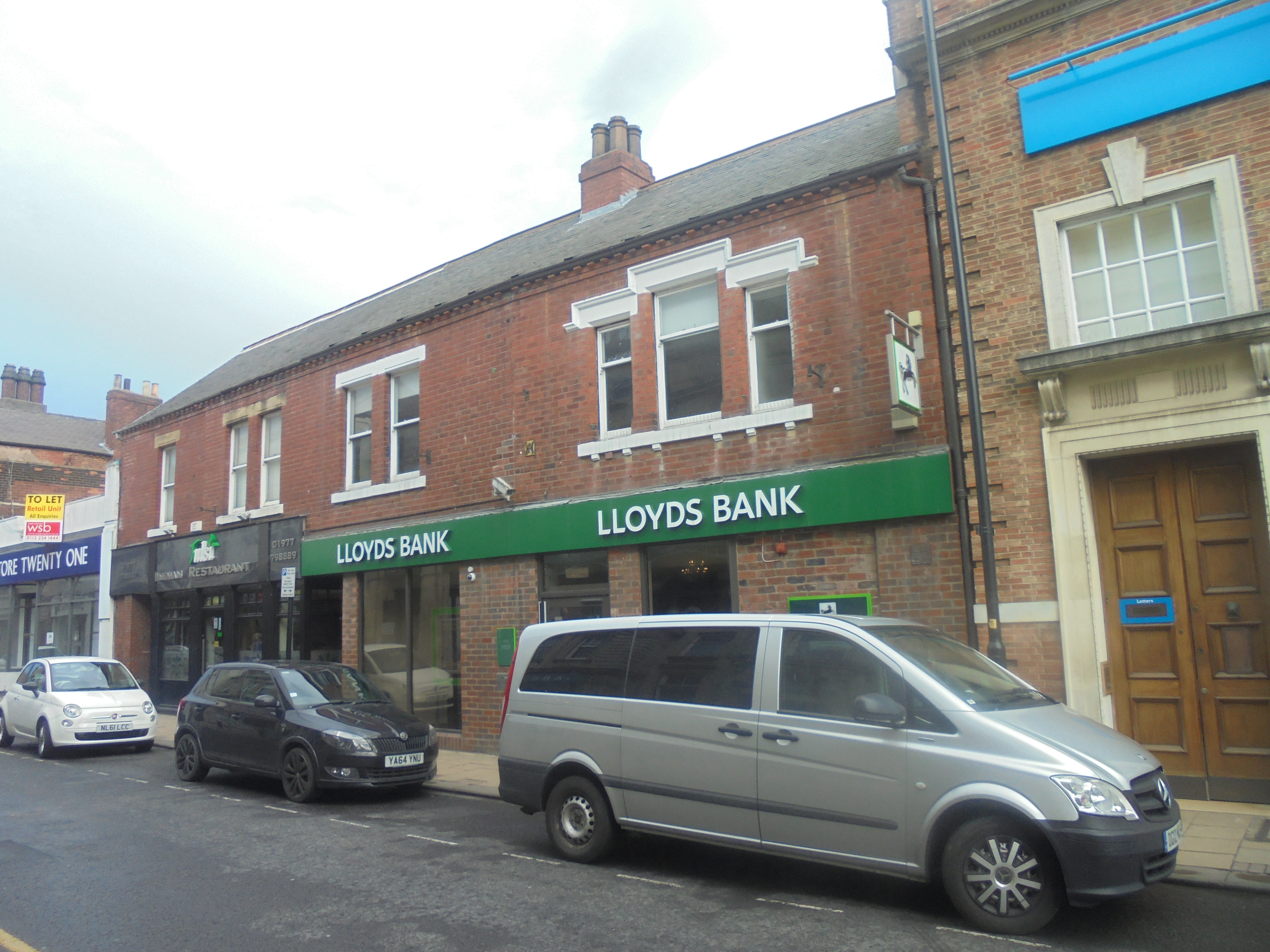 Lloyds Bank, Ropergate, Pontefract, West Yorkshire. Taken on the afternoon of Thursday the 25th of April 2019.